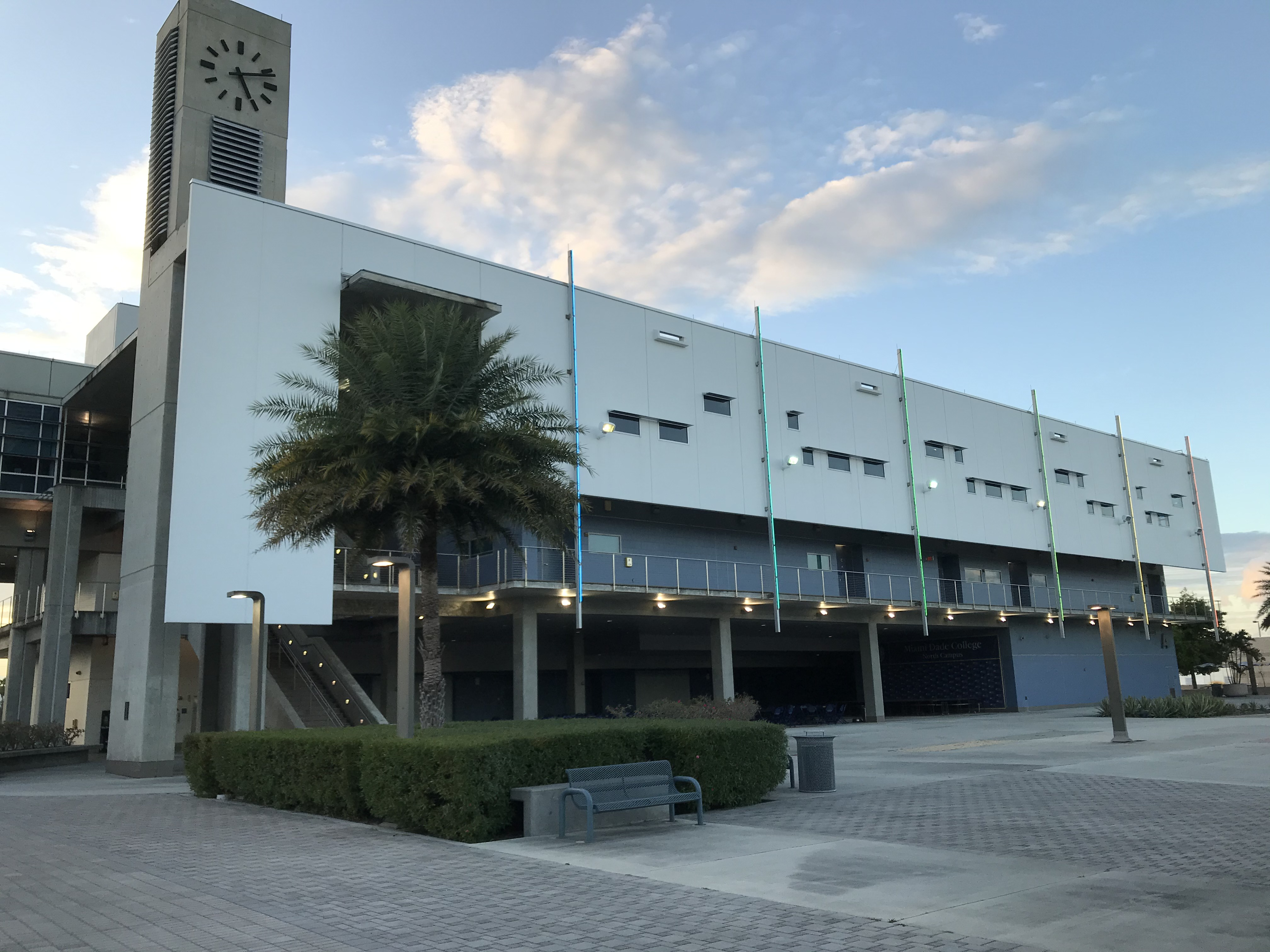 MDC North Campus Science Complex